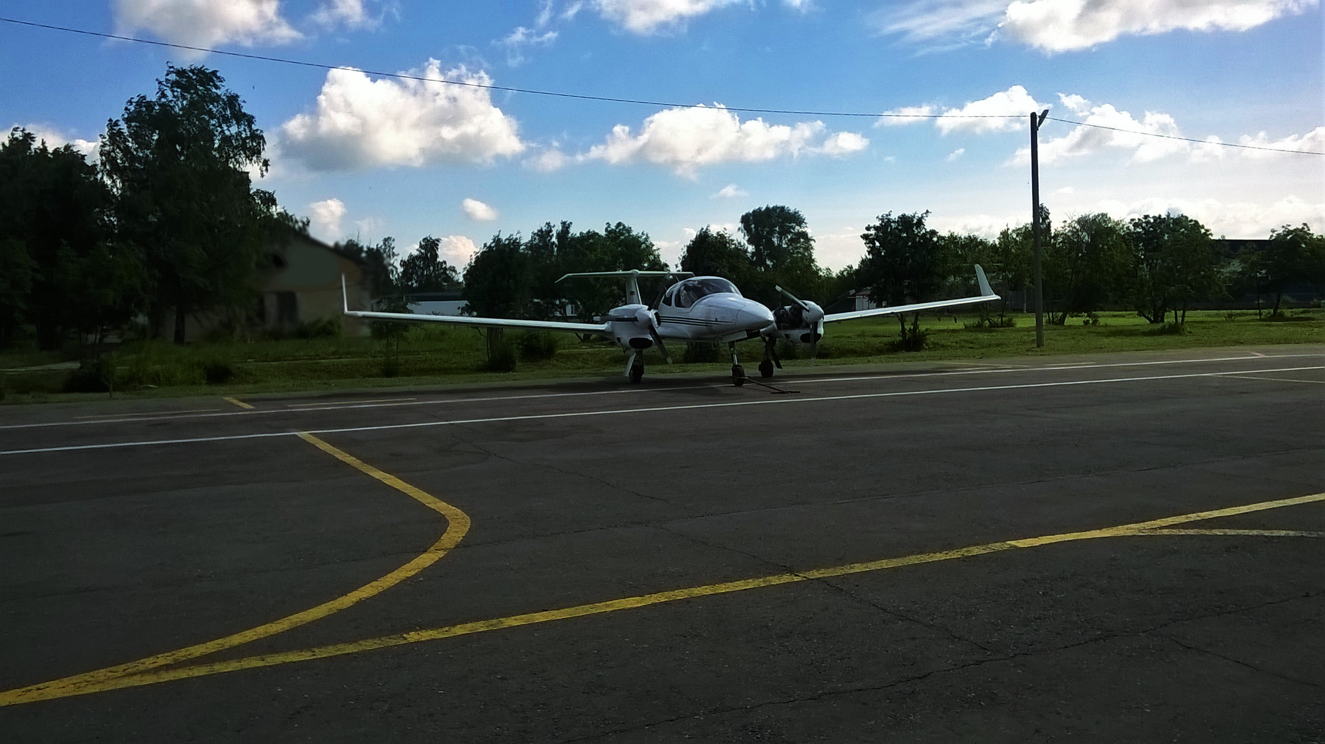 Da-42 aeroplane standing at the UWLL aerodrome